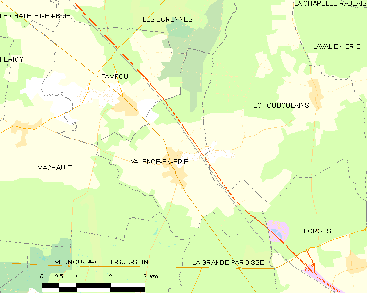 Map of French municipality Valence-en-Brie